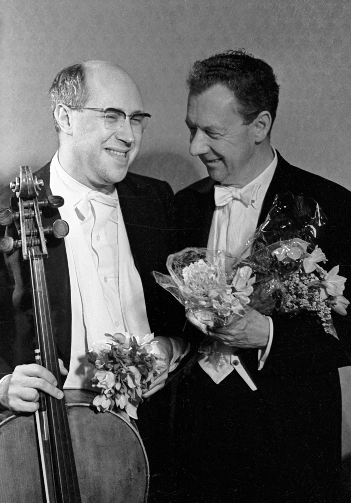 “Mstislav Rostropovich and Benjamin Britten after a concert”. Mstislav Rostropovich and Benjamin Britten after a concert in the Big Hall of the Moscow Conservatory.